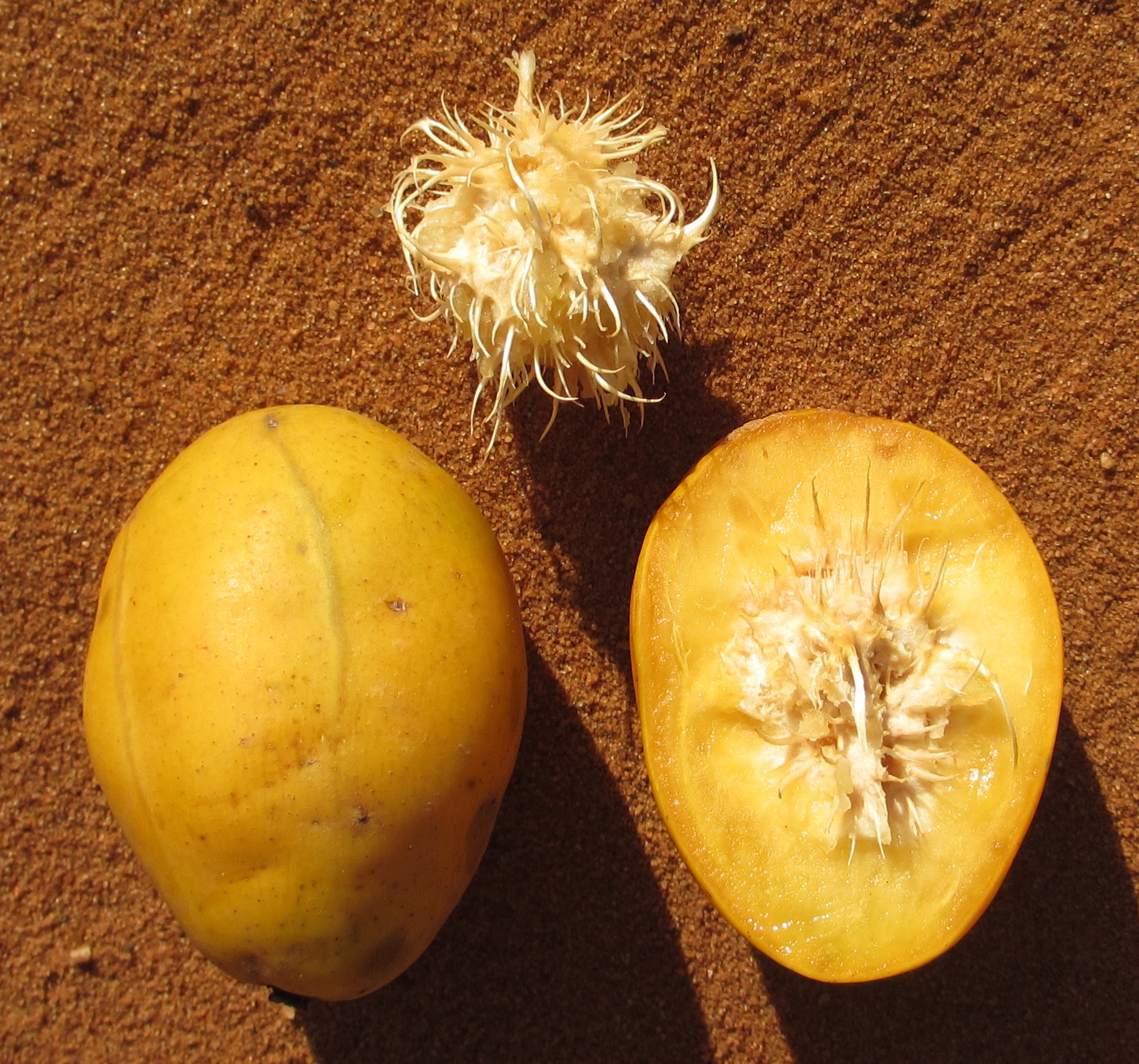 Not common in Mozambique. It is only found in the northern coastal zone of Cabo Delgado province. It produces fruits in a period of the year when few other fruits are produced, which is a definite advantage.